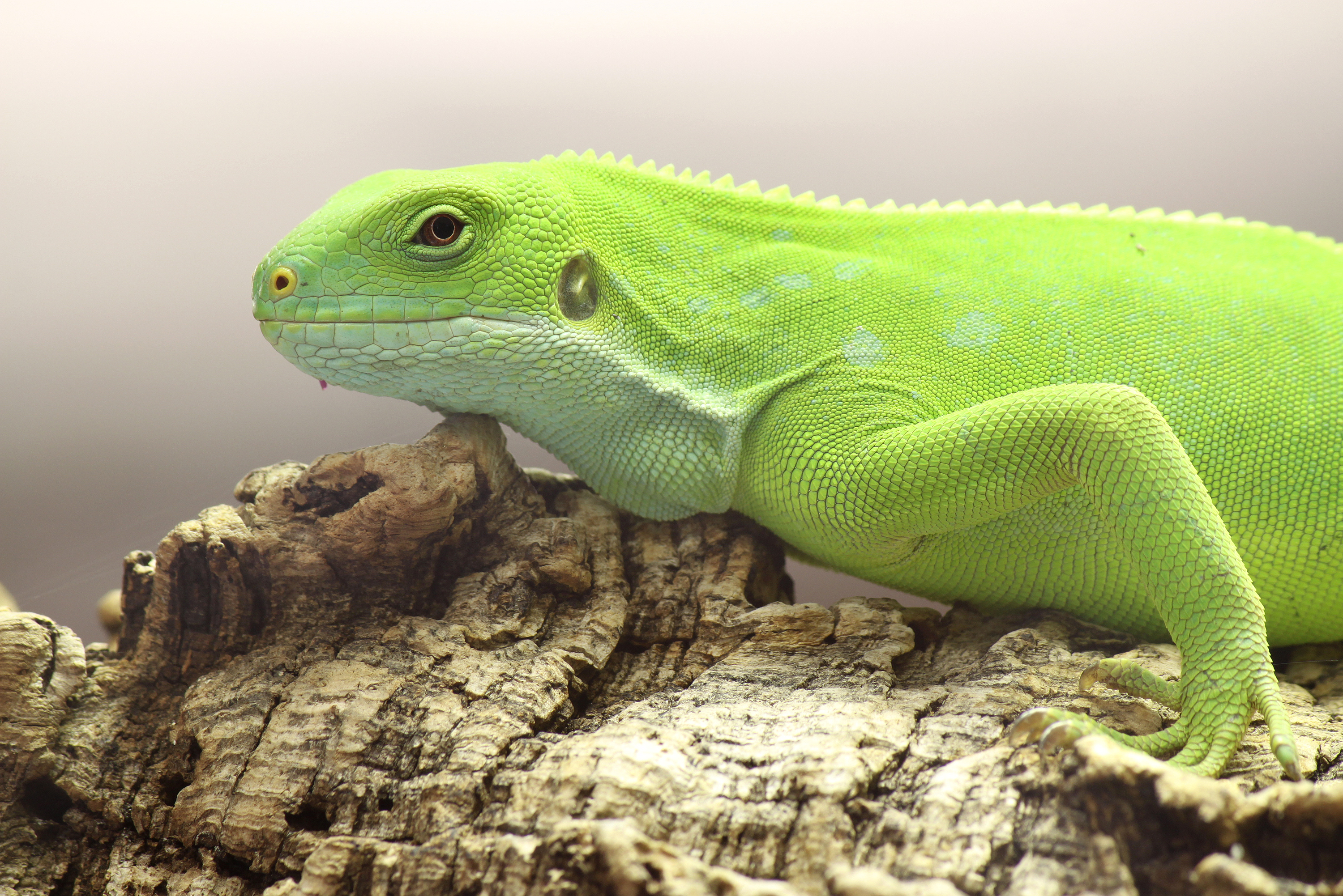 Fiji Banded Iguana, Brachylophus fasciatus, Family: Iguanidae, Location: Germany, Augsburg, Zoo